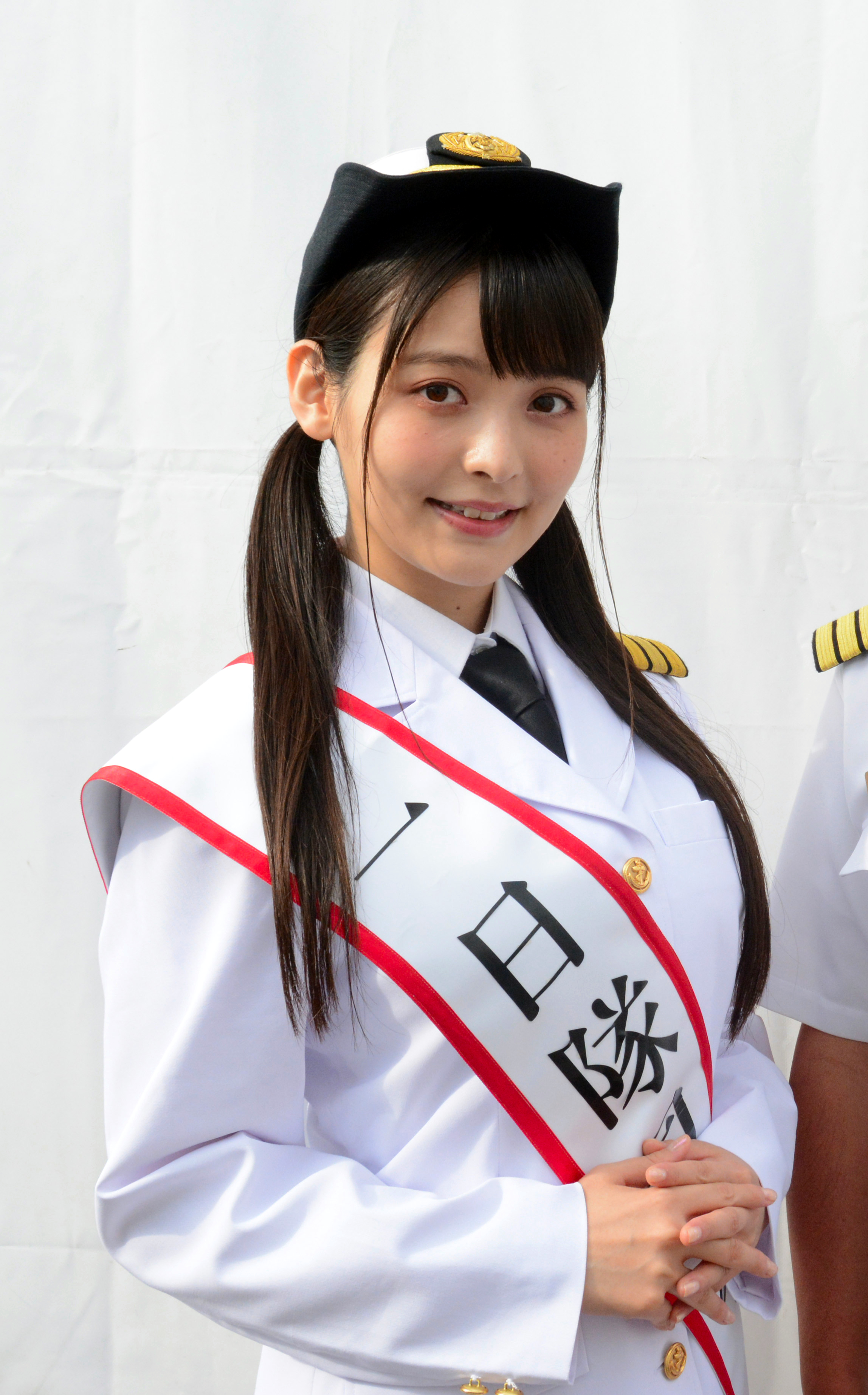 Sumire Uesaka, Honorary Commander of the Escort Division 1 for one day, Escort Flotilla 1, Fleet Escort Force, Self Defense Fleet, Maritime Self-Defense Force, met Yoshio Higuchi, Band Master of the Maritime Self-Defense Force Band Tōkyō, at the Fleet Week in Yokohama City, Kanagawa Prefecture on October 6, 2019.